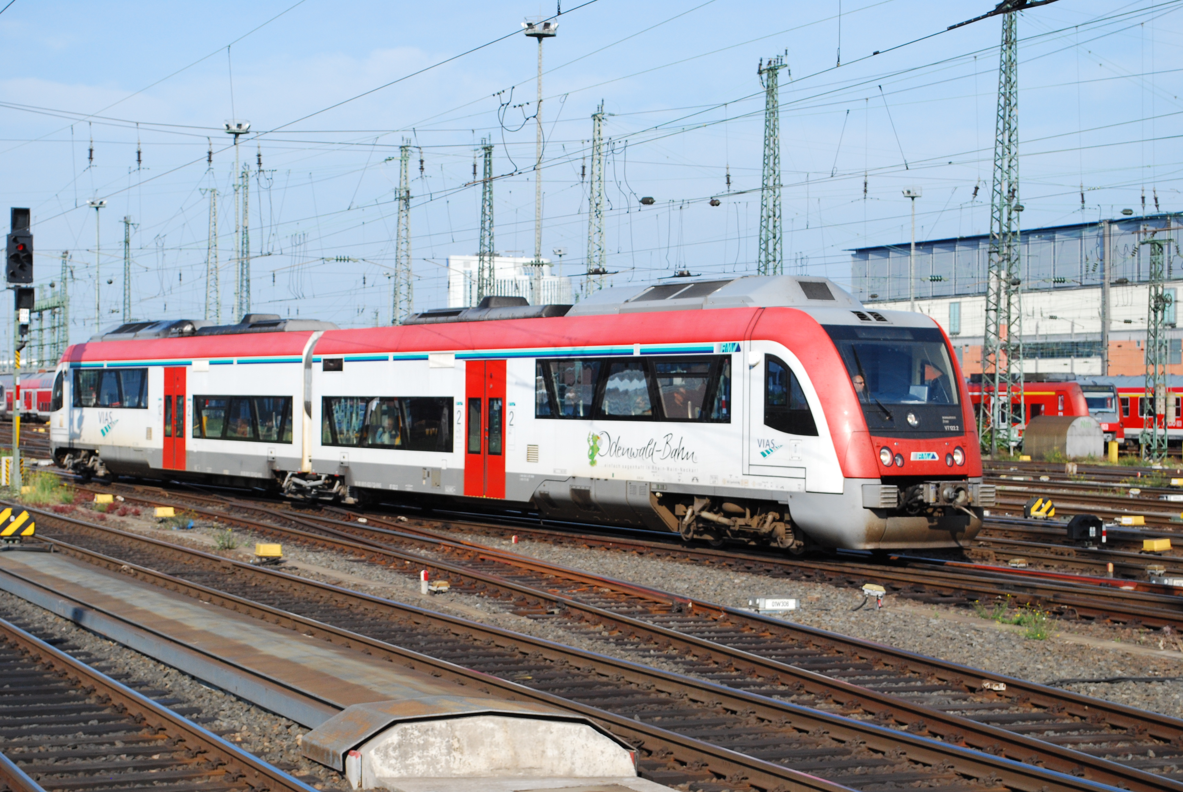 Odenwald bahn 2-car d.m.u. No.VT 122 approacing Frankfurt Hbf, 6/11.